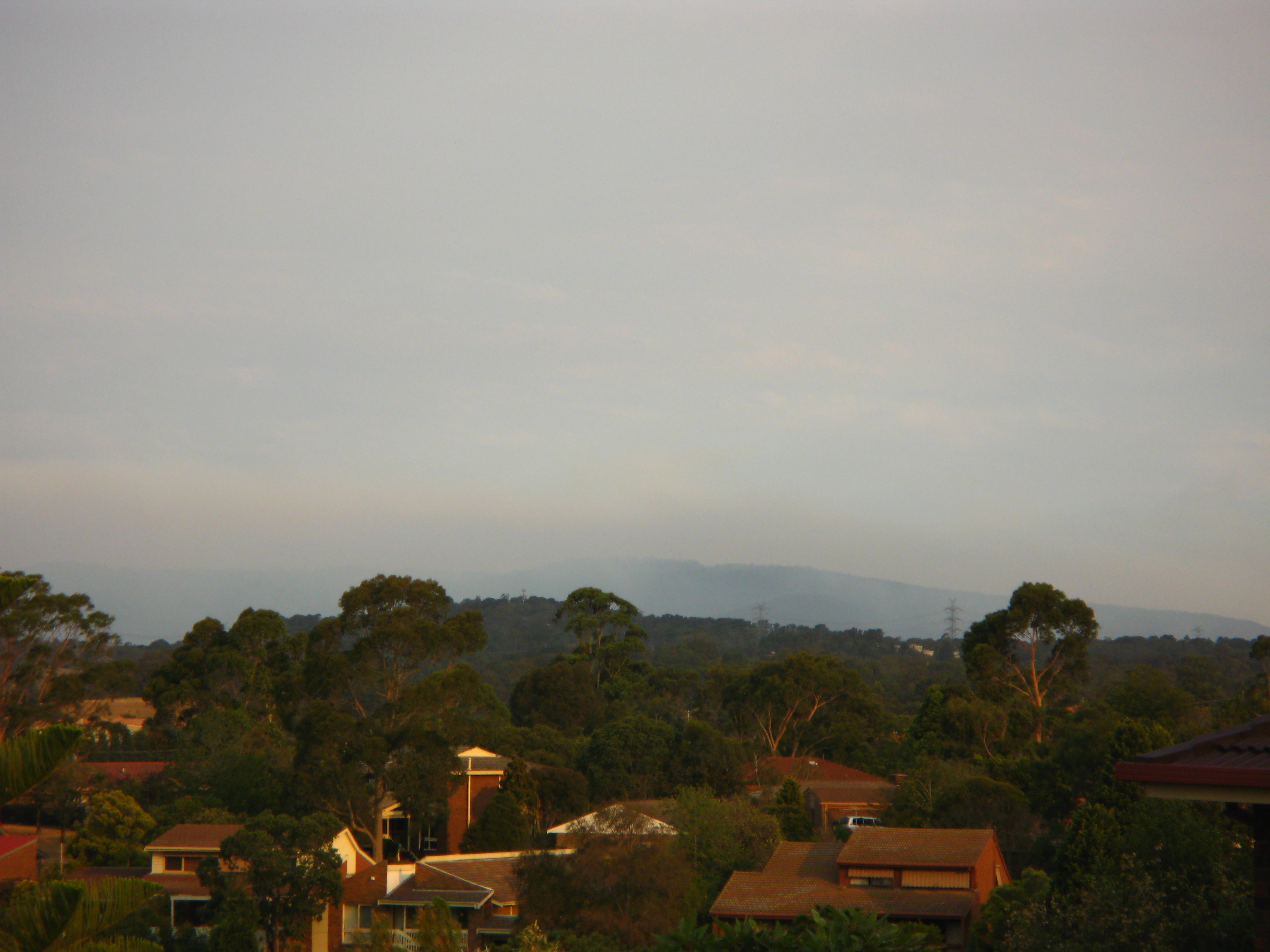 Bushfires near Upwey and Belgrave Heights in the southern Dandenong Ranges on the 23rd of February 2009. Photo taken by myself.